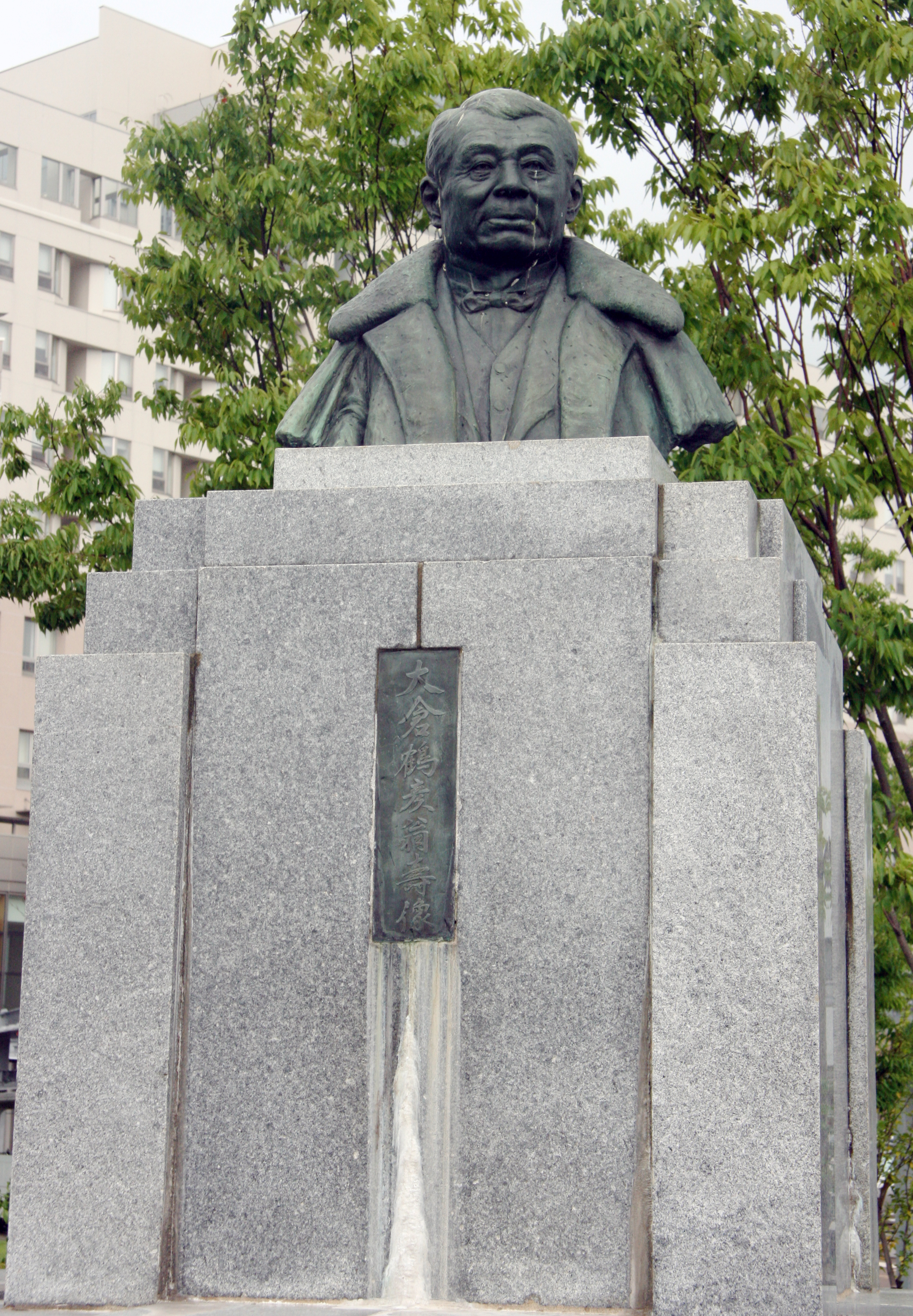 a portrait bust of Okura Kihachiro in Shibata, Niigata